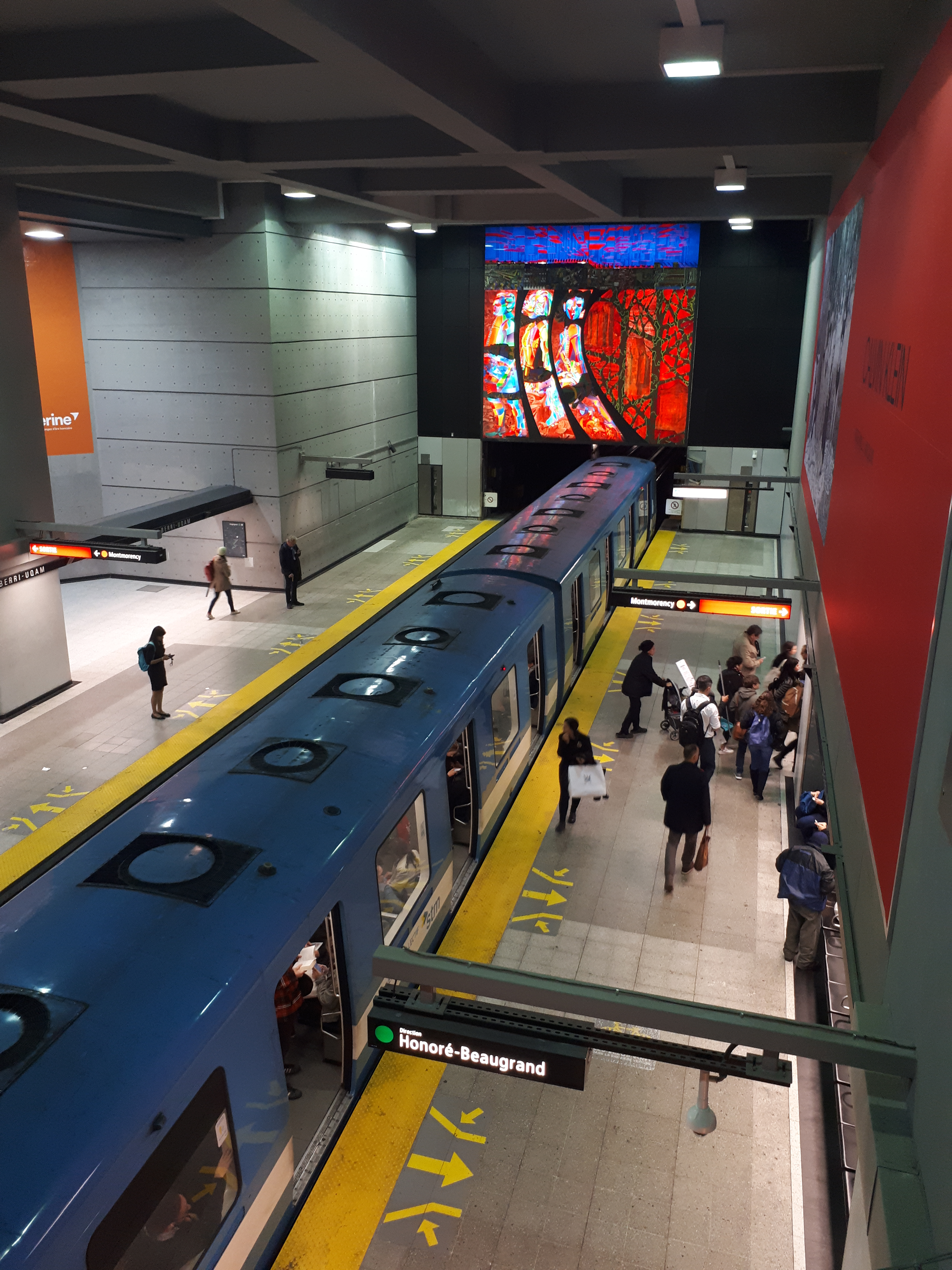 The green line platforms at Berri-UQAM station, seen from the orange line level.